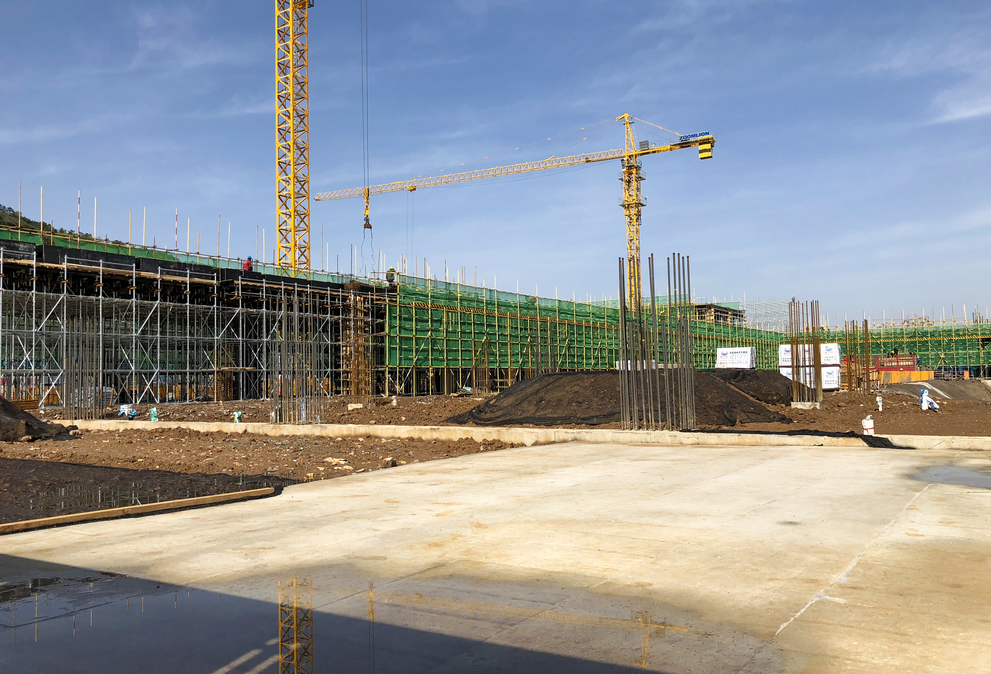 Located in Guoyingzi Village, Fengyingzi Town, Shuangqiao District, Chengde, this station is built with 4 platforms and 10 tracks.